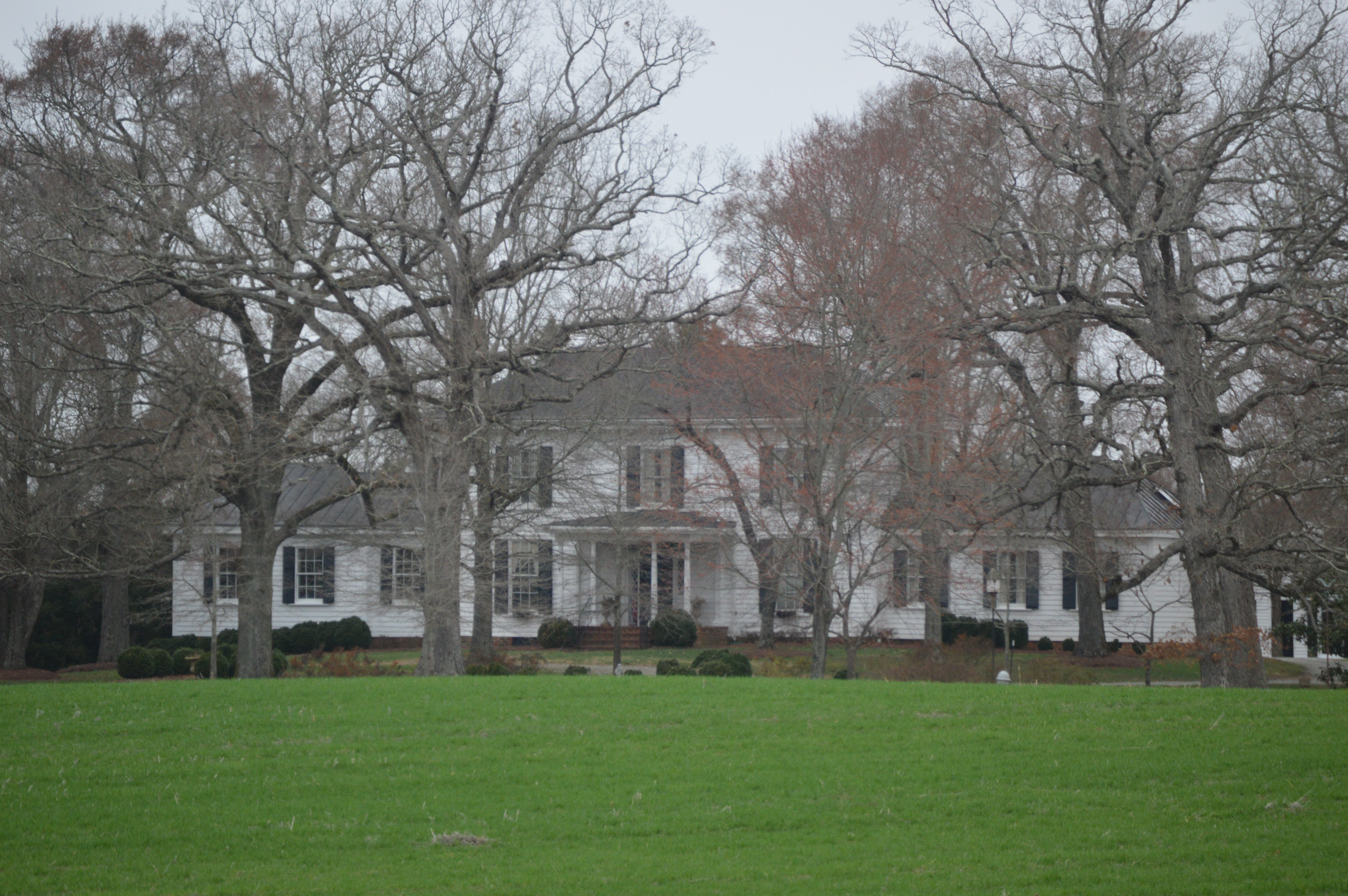 Roadside view of the Glenwood estate house, located at 7040 U.S. Route 58 southwest of South Boston in Halifax County, Virginia, United States. Built in 1861, it is listed on the National Register of Historic Places.